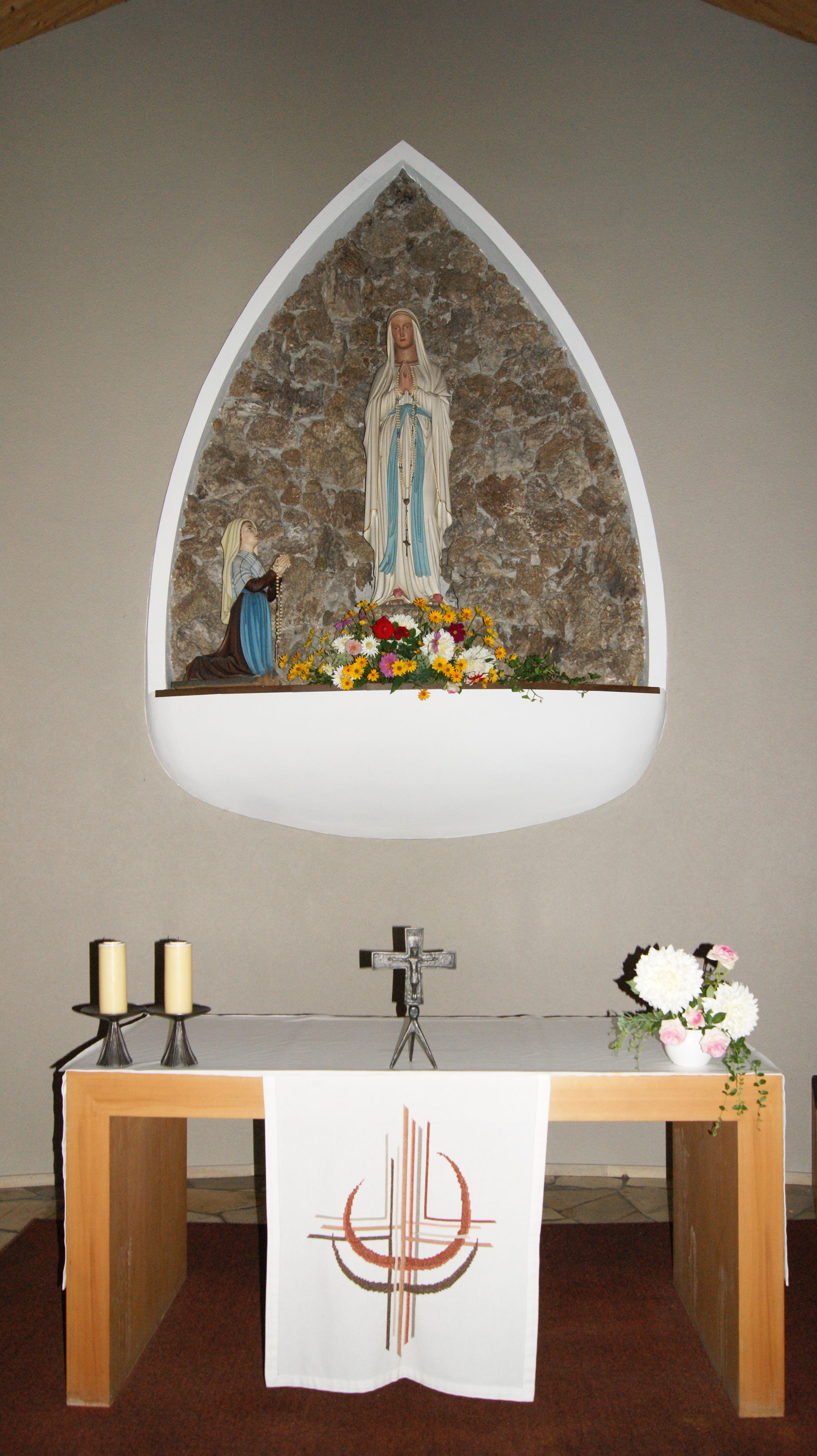 Lourdes Chapel in the hamlet Mühlebach, Dornbirn, Vorarlberg, Austria. Altar.